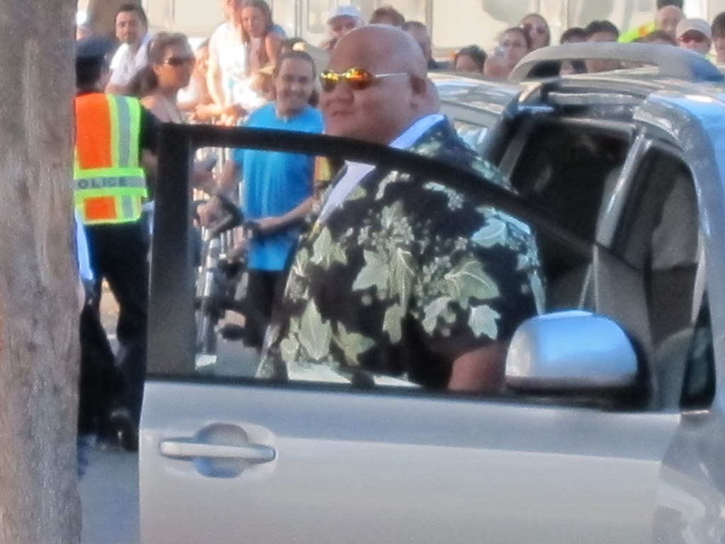 Nice shades! Wily plays the lovable Five-0 informant, Kamekona. Taken at "Hawaii Five-0" Season 2 World Premiere on Sept. 10, 2011 at Waikiki Beach, Honolulu, Hawaii.